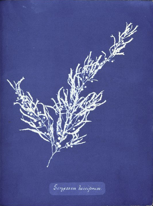 Sargassum bacciferum. Cyanotype photogram.